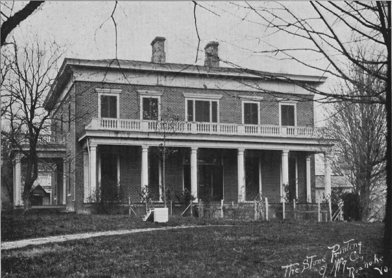 Whitethorne